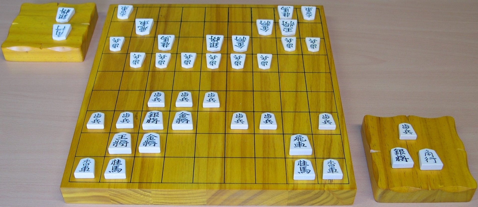 Shogi - Japanese chess. Board, pieces and komadai in a typical game situation.